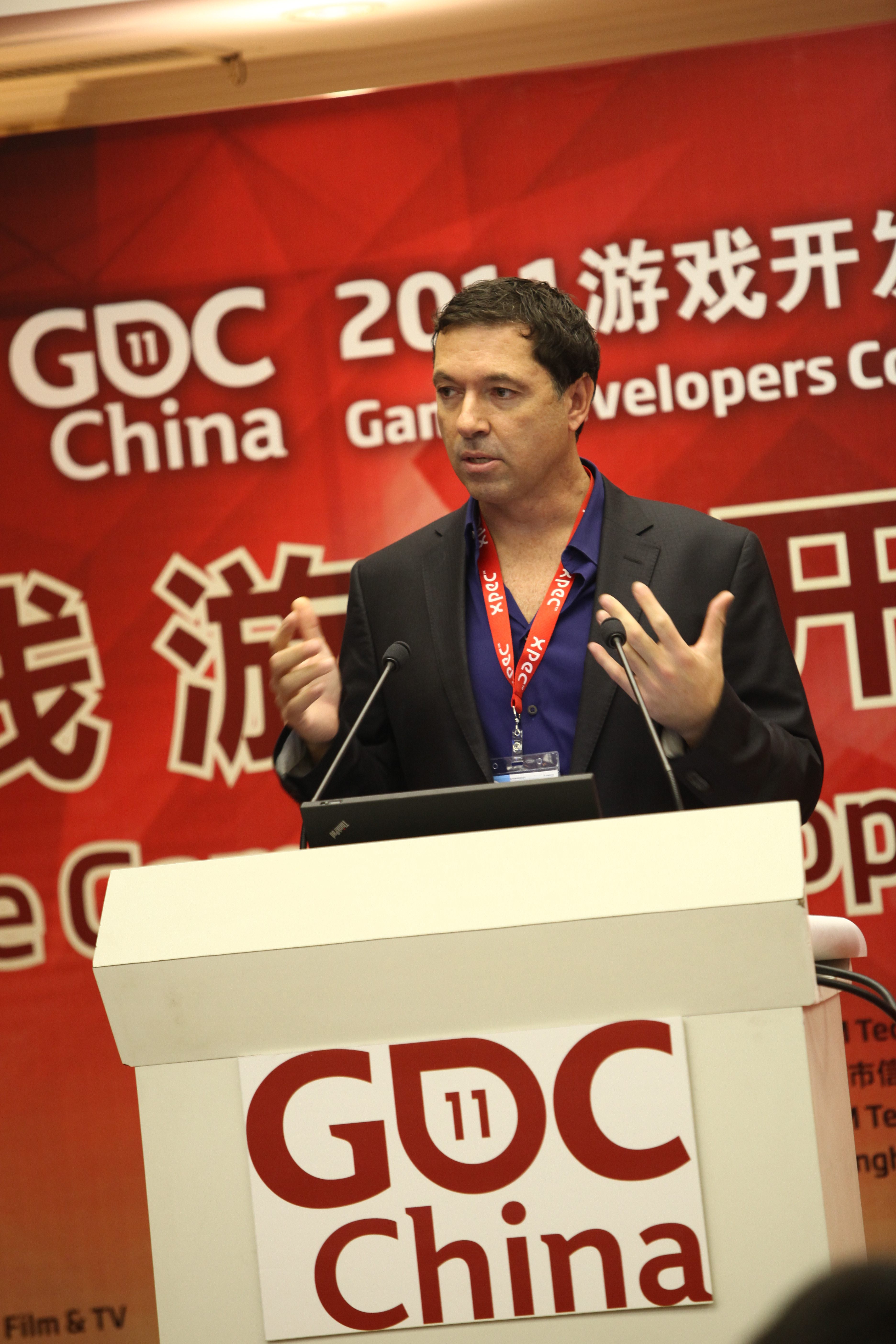 Brian Fargo during his keynote at GDC China 2011.